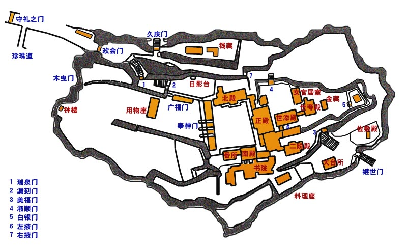 Simplified Chinese Map of Shuri